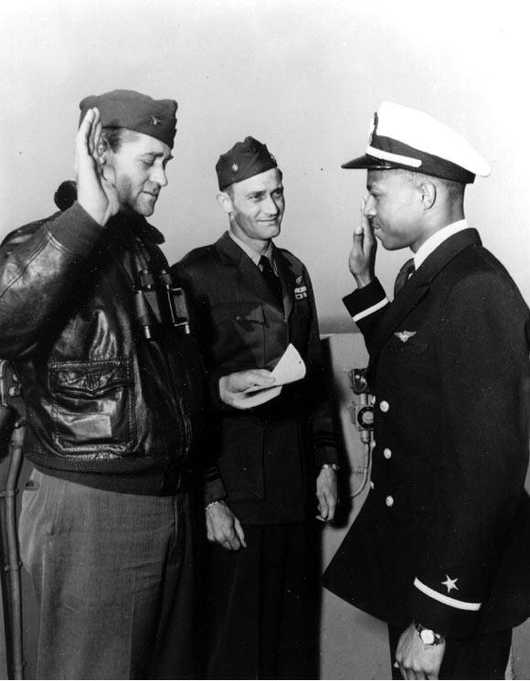 Ensign Jesse L. Brown, USN Takes the oath of office on board USS Leyte (CV-32), 26 April 1949. Administering the oath is the ship's Commanding Officer, Captain William L. Erdmann. Lieutenant Commander E.D. Williams (center) is witnessing the ceremony.